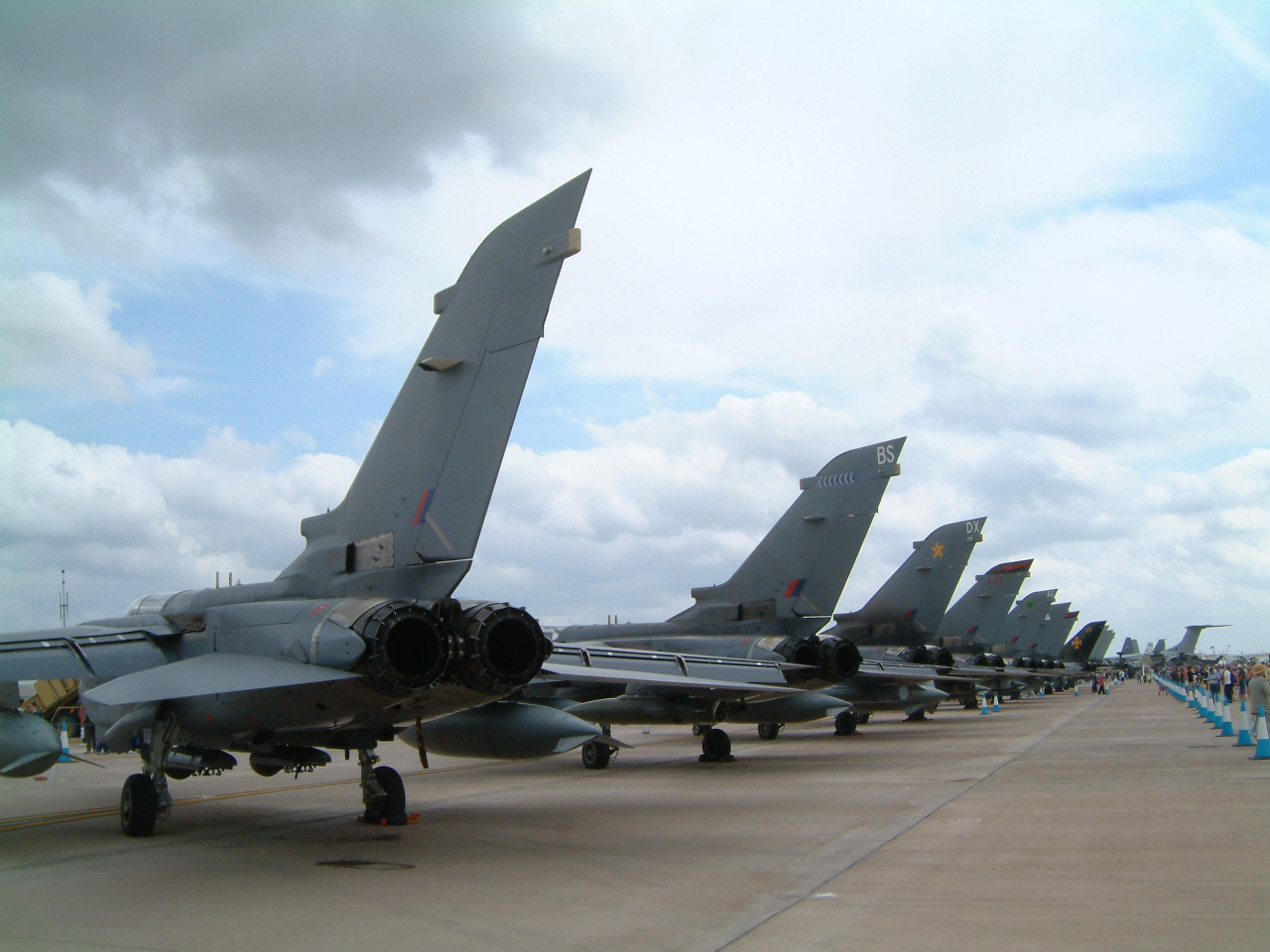 Tornado strike aircraft on parade at Fairford on 2003.Tailpiece